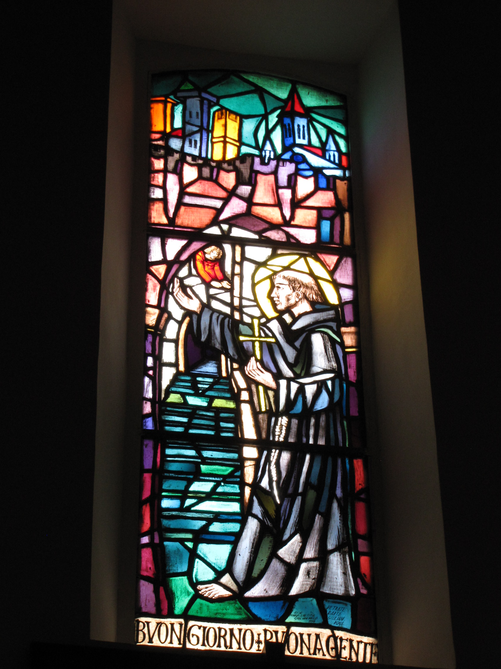 Sanctuary of Poggio Bustone (Province of Rieti, Lazio, Italy)